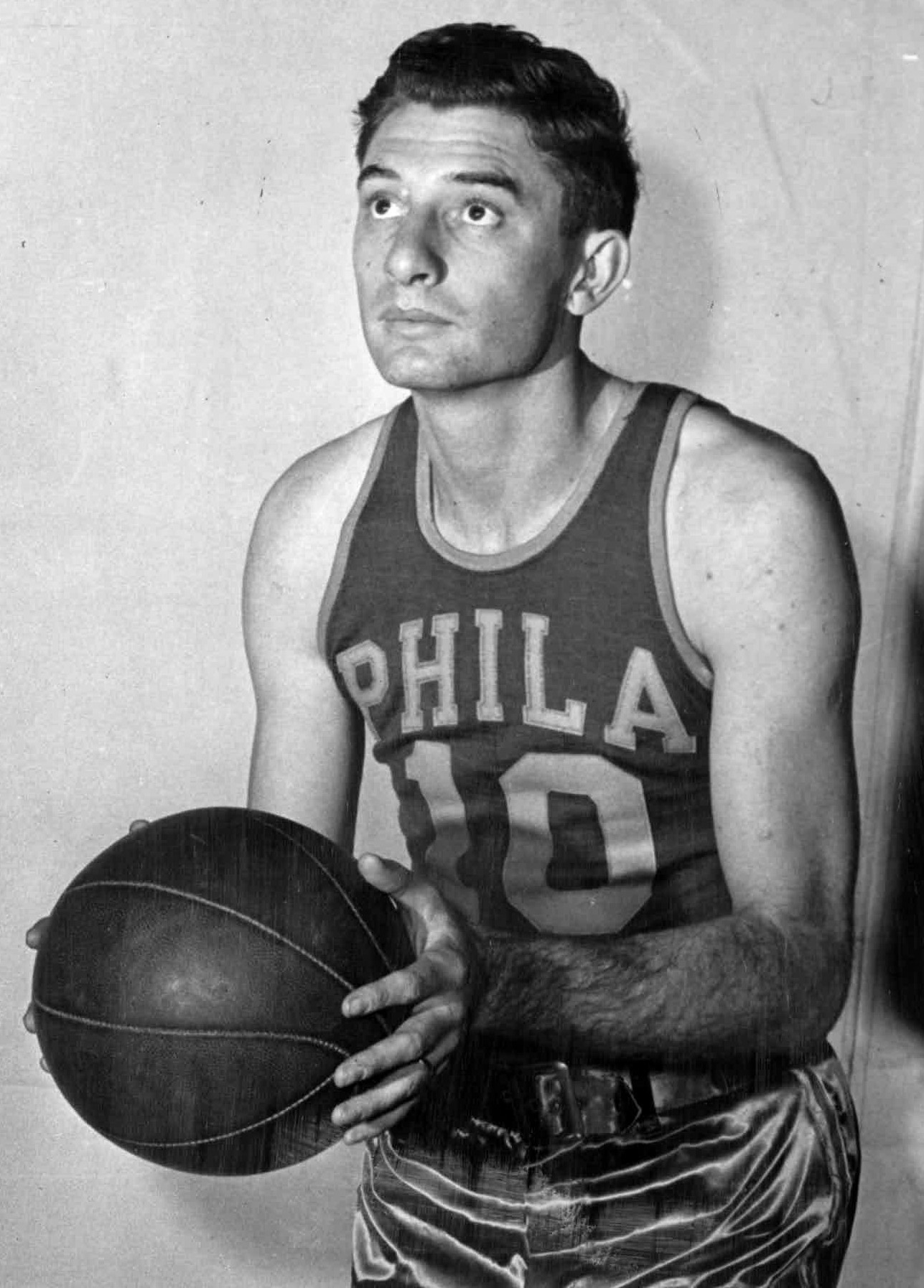 Professional basketball player Joe Fulks